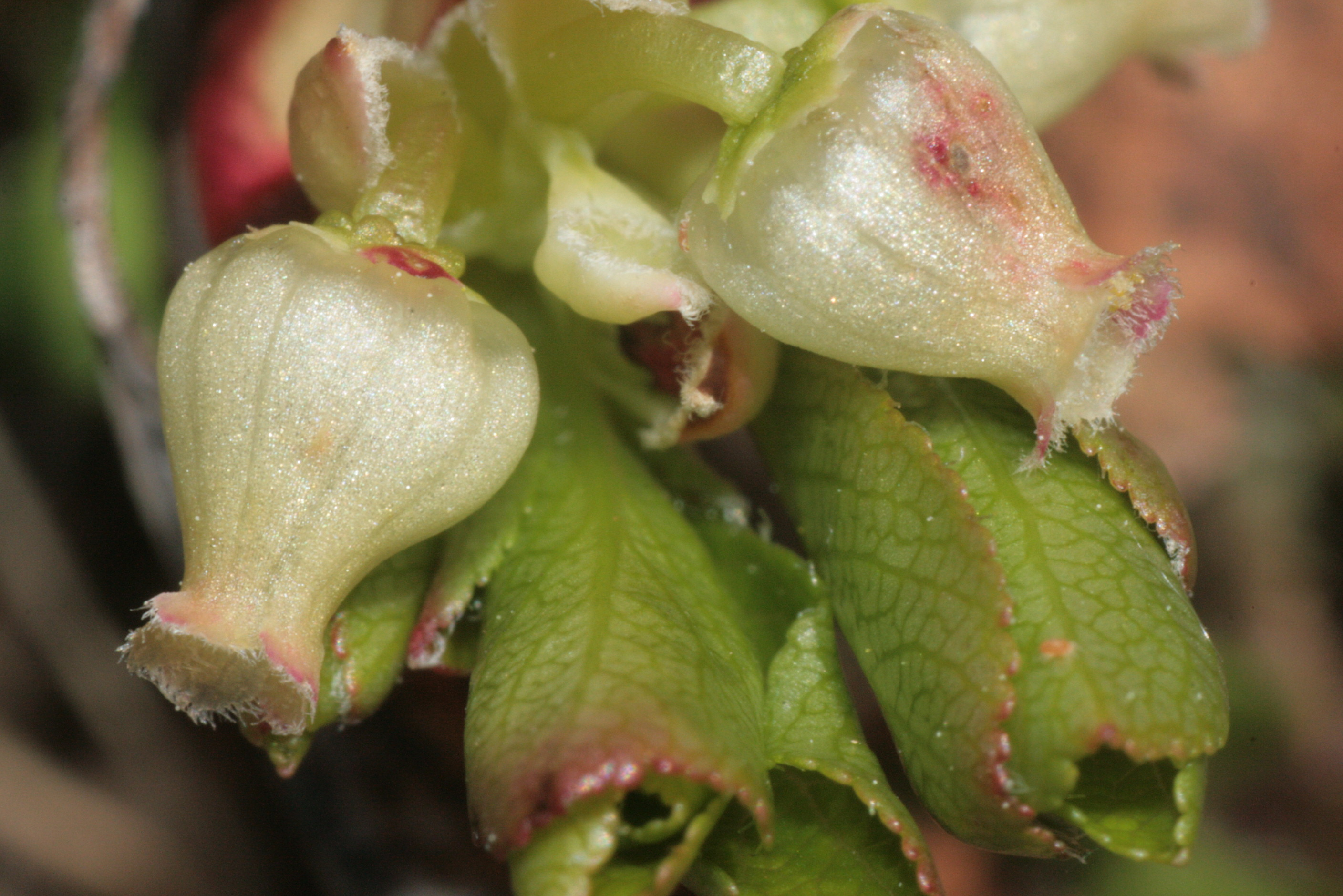 Arctostaphylos alpinus